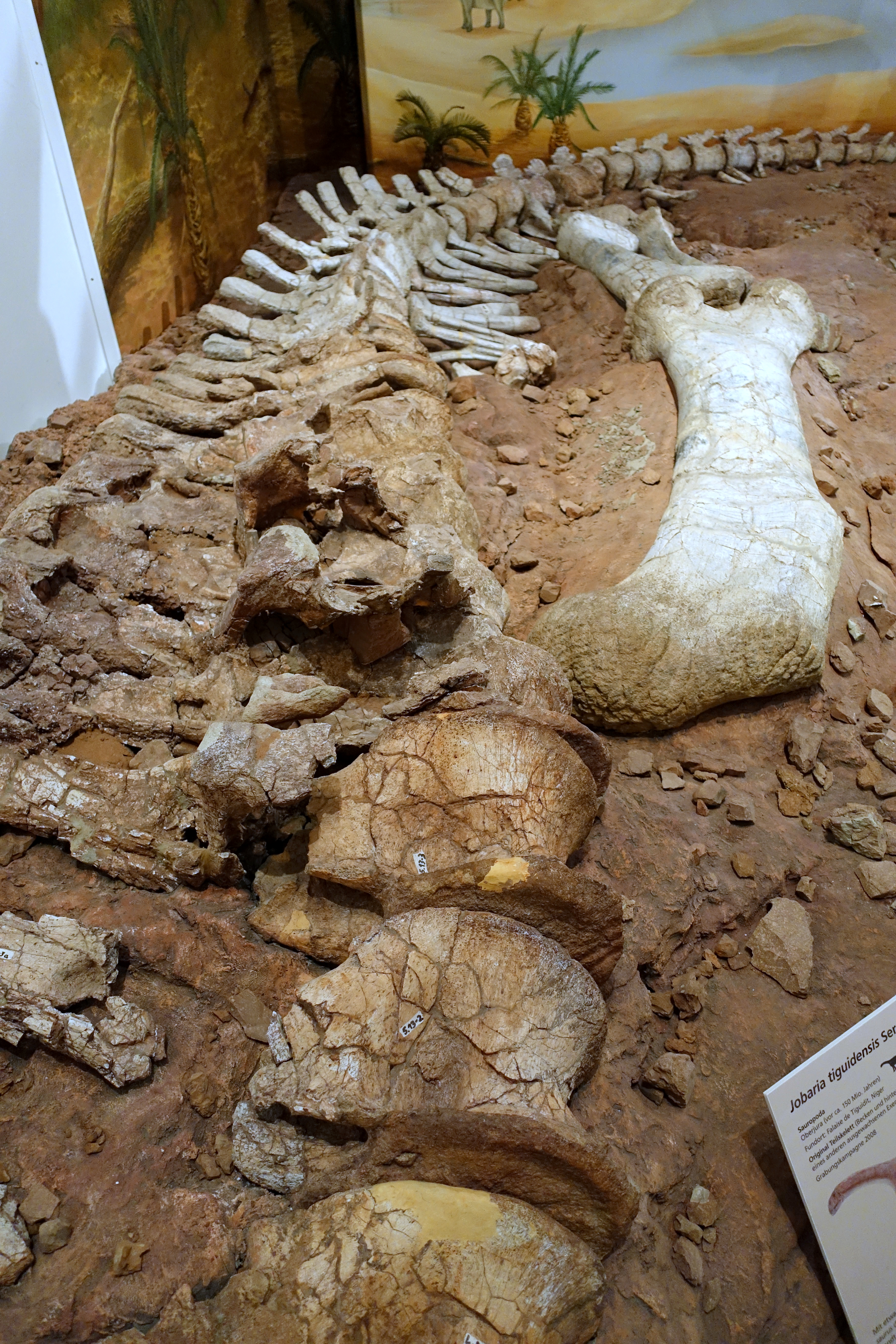 Exhibit in the Naturhistorisches Museum, Braunschweig, Germany.